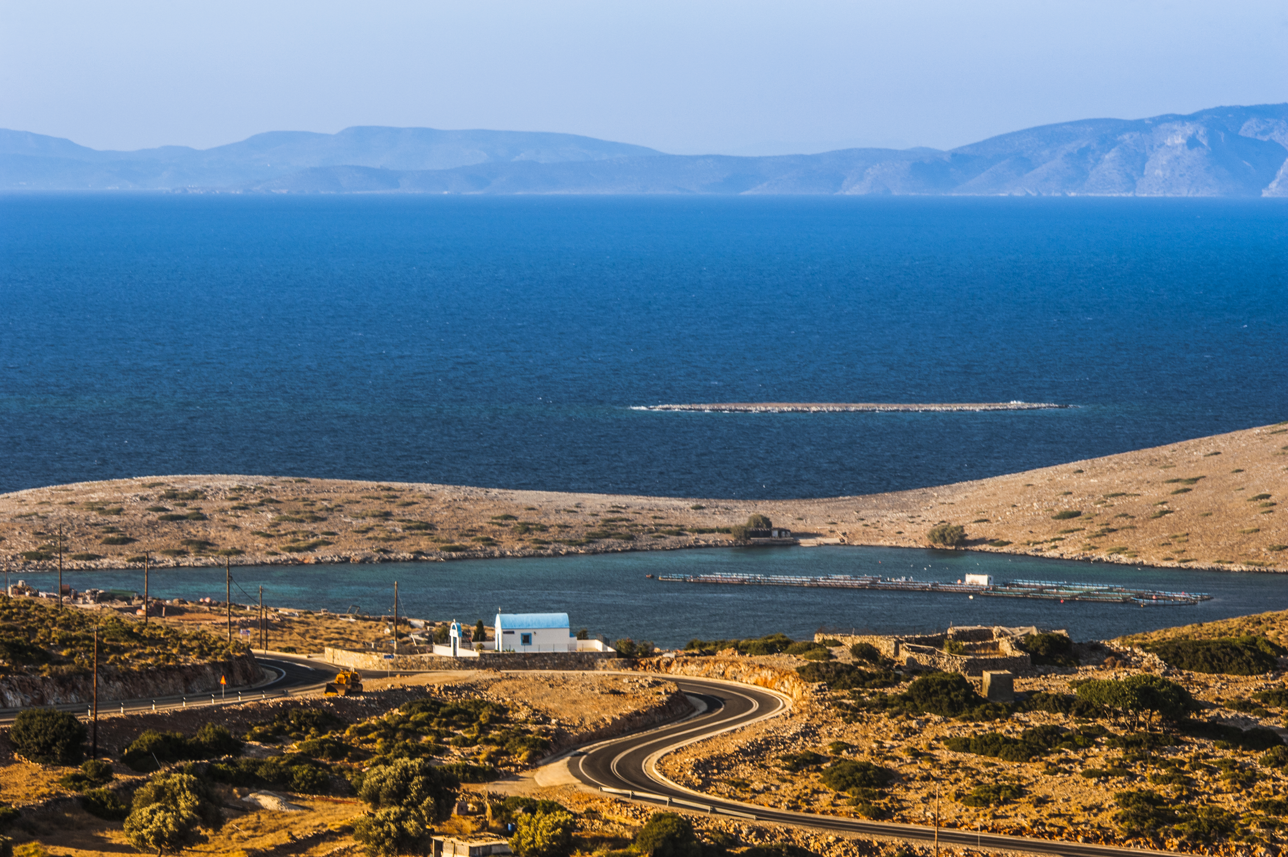 This is a photography of Natura 2000 protected area with ID GR4210010